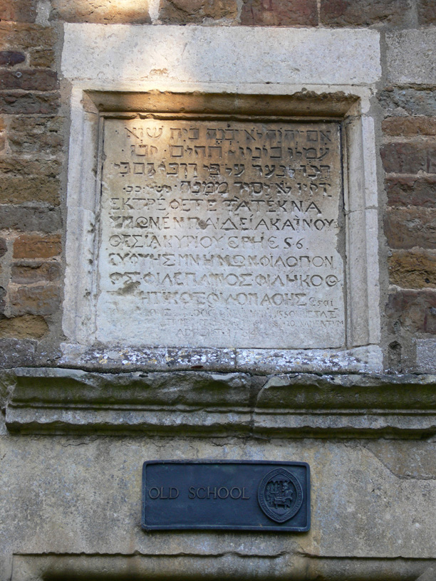 Inscription in Hebrew and Greek (and Latin? lower part of the inscription is unclear) over the door of the Old School, the original school building of Oakham School, dating from 1584, in the churchyard of All Saints Church, Oakham, Rutland, UK.